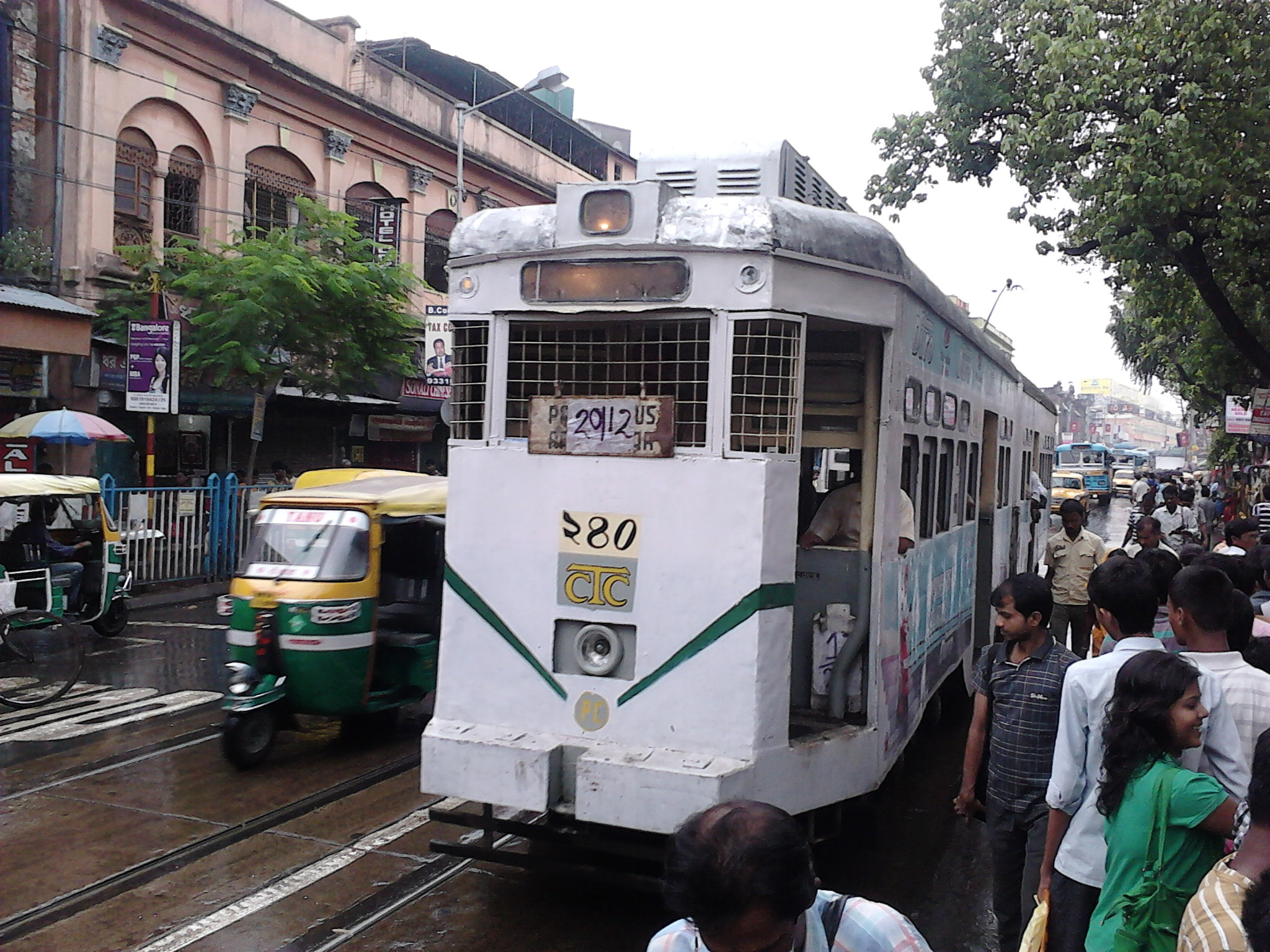 Calcutta Tramways Company owned Tram is plying at Sealdah area in Kolkata.